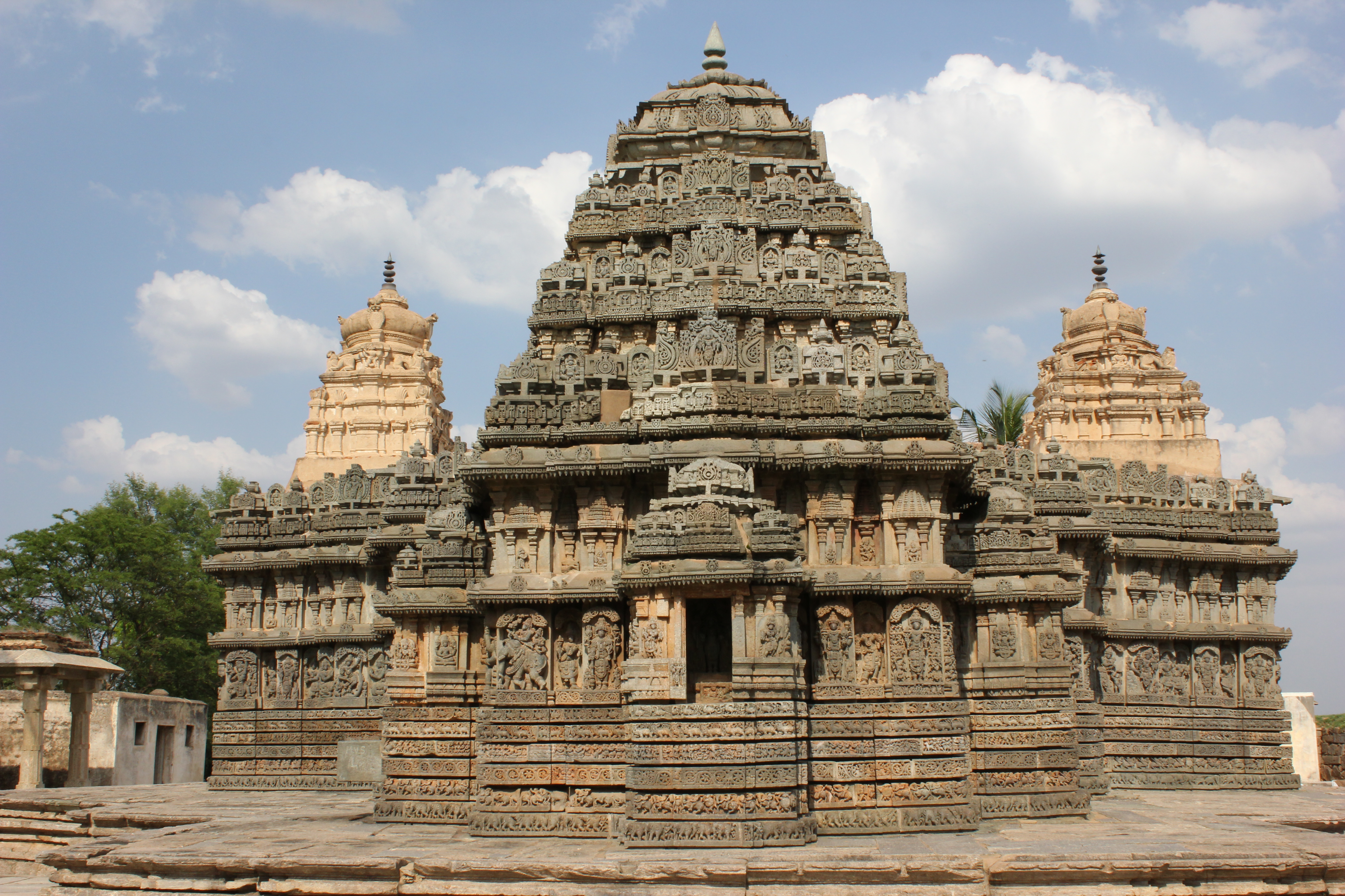 This photo was taken by me (Dinesh Kannambadi) at the Lakshmi Narasimha temple in Nuggehalli, Hassan district, Karnataka state, India. It was built in 1246 CE during the rule of the Hoysala Empire King Vira Someshwara.